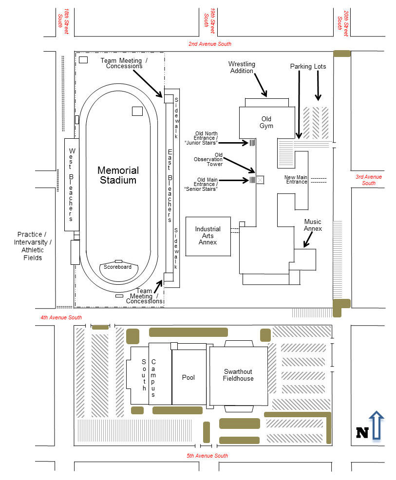 Map of the campus of Great Falls High in Great Falls, Montana, United States, as of 2011. The map shows the location of Memorial Stadium, various additions and annexes, the fieldhouse, and parking lots.